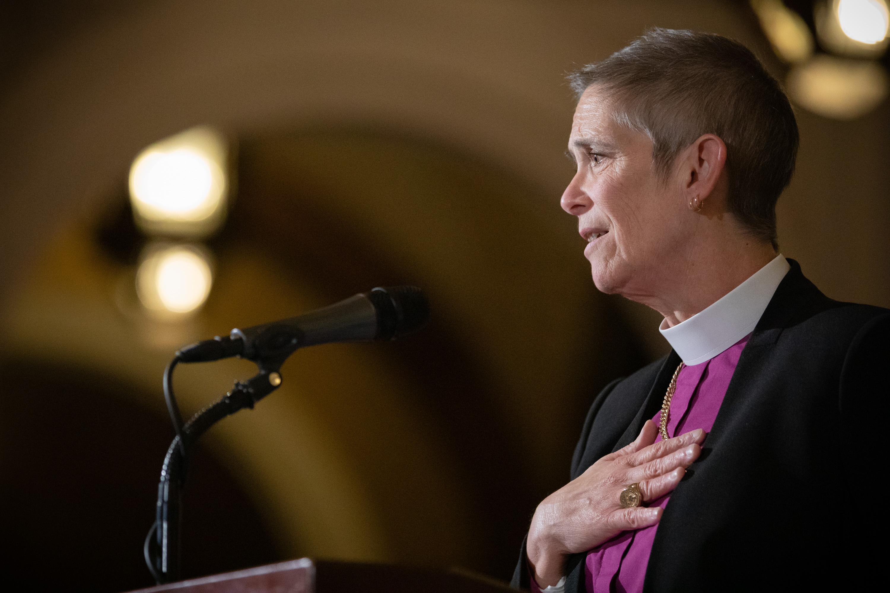 Bishop Audrey Scanlan of the Central Pennsylvania Episcopal Diocese speaks at the 2019 Capitol Tree Lighting Ceremony.